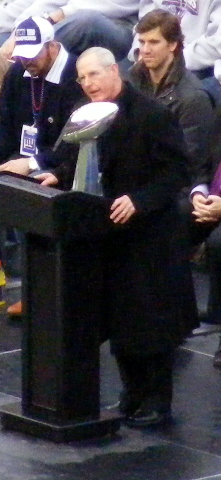 Tom Coughlin at the Giants Rally after victory in Super Bowl XLII.